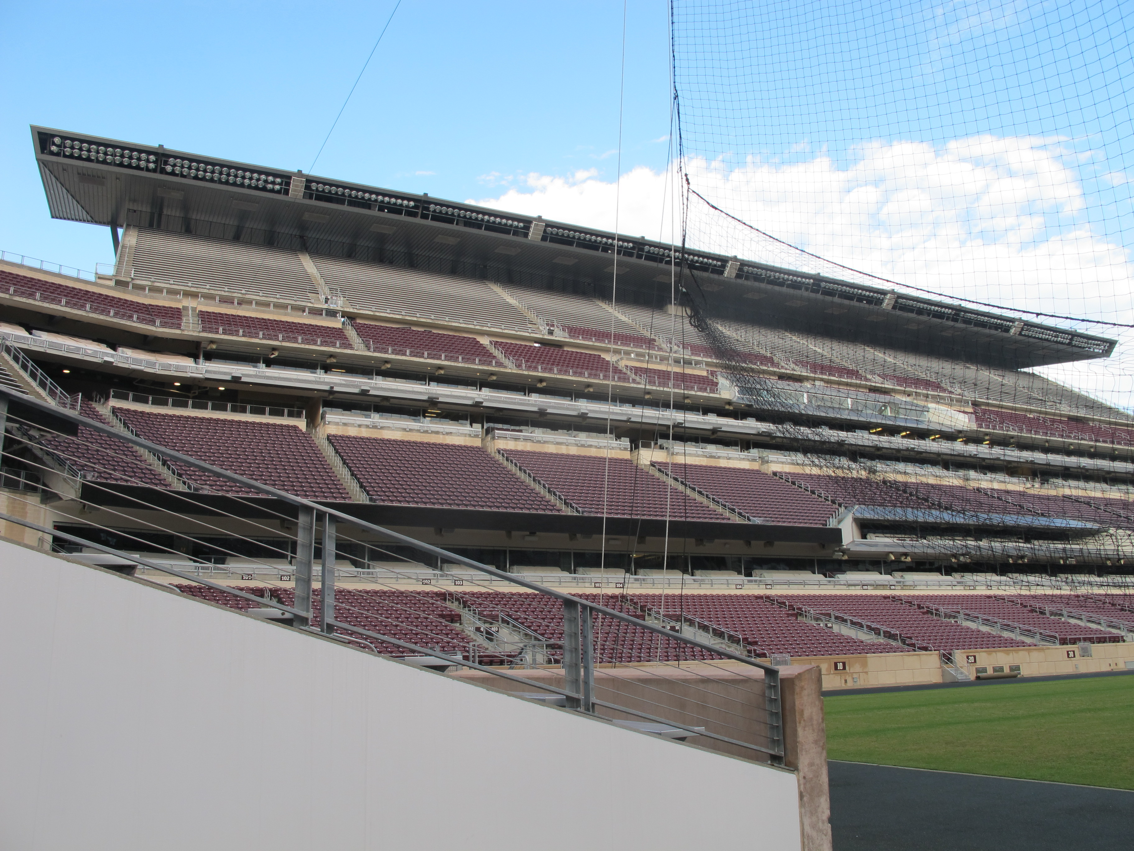 Kyle Field's Massive Granstand 2016